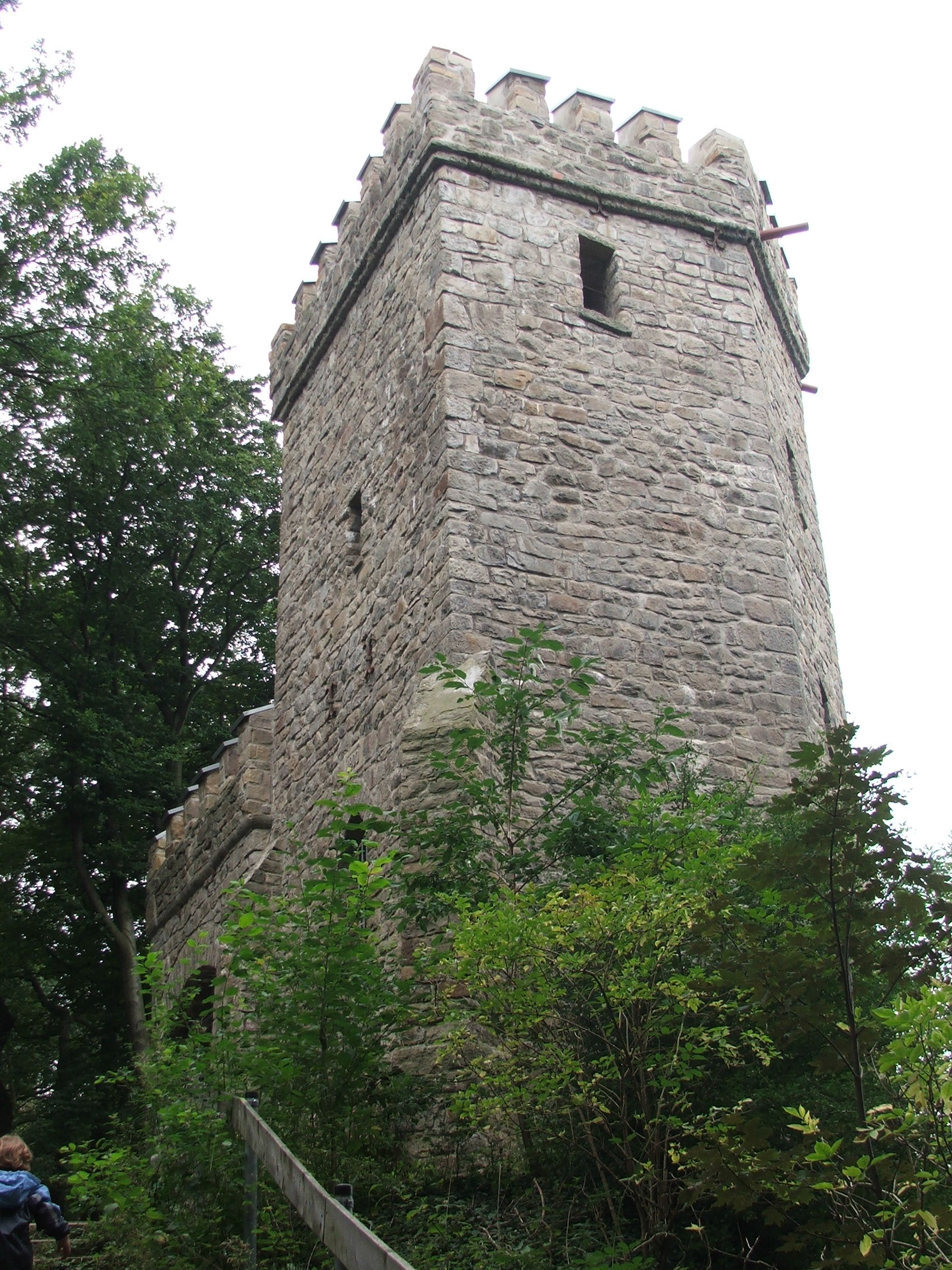 Bismarckturm, Hattingen, Germany